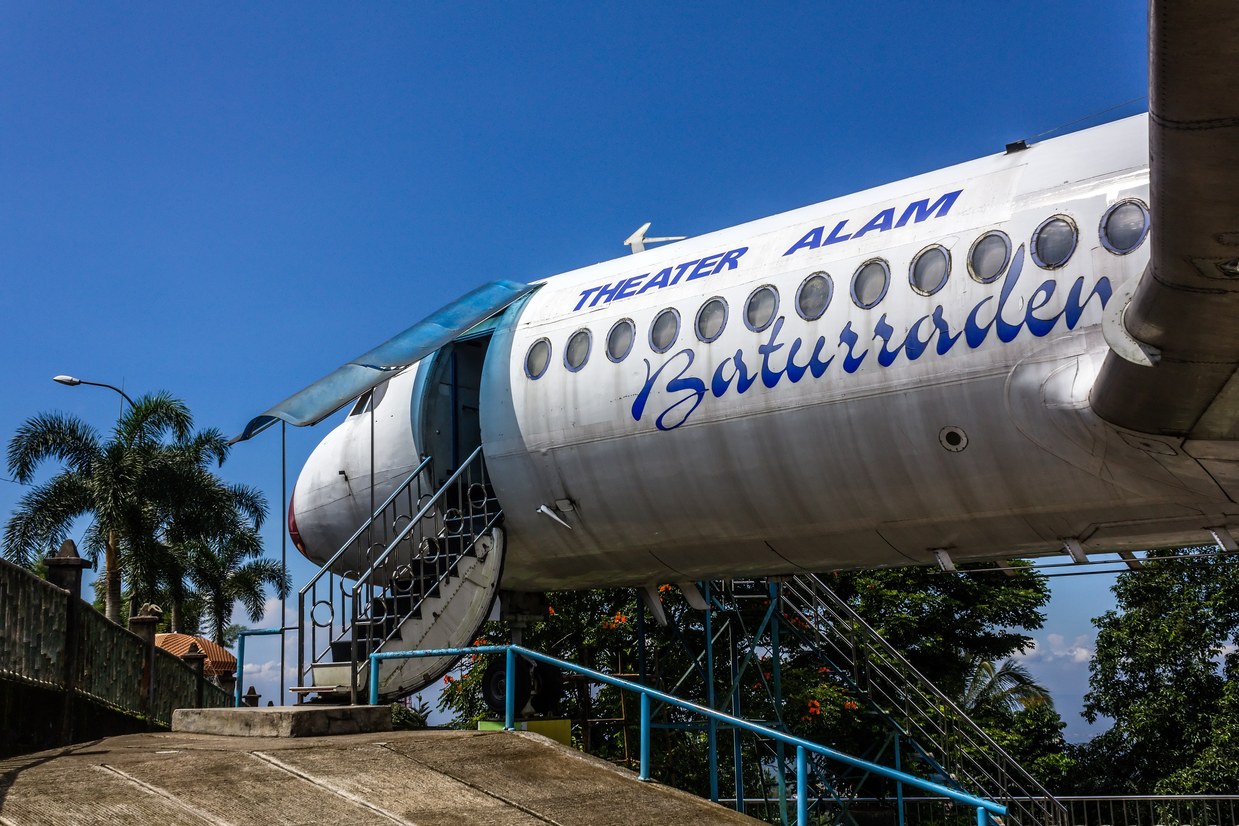 Theater Alam, Baturraden, Purwokerto 2015-03-23. This theater screens short films and is in a former Merpati Airlines Fokker.